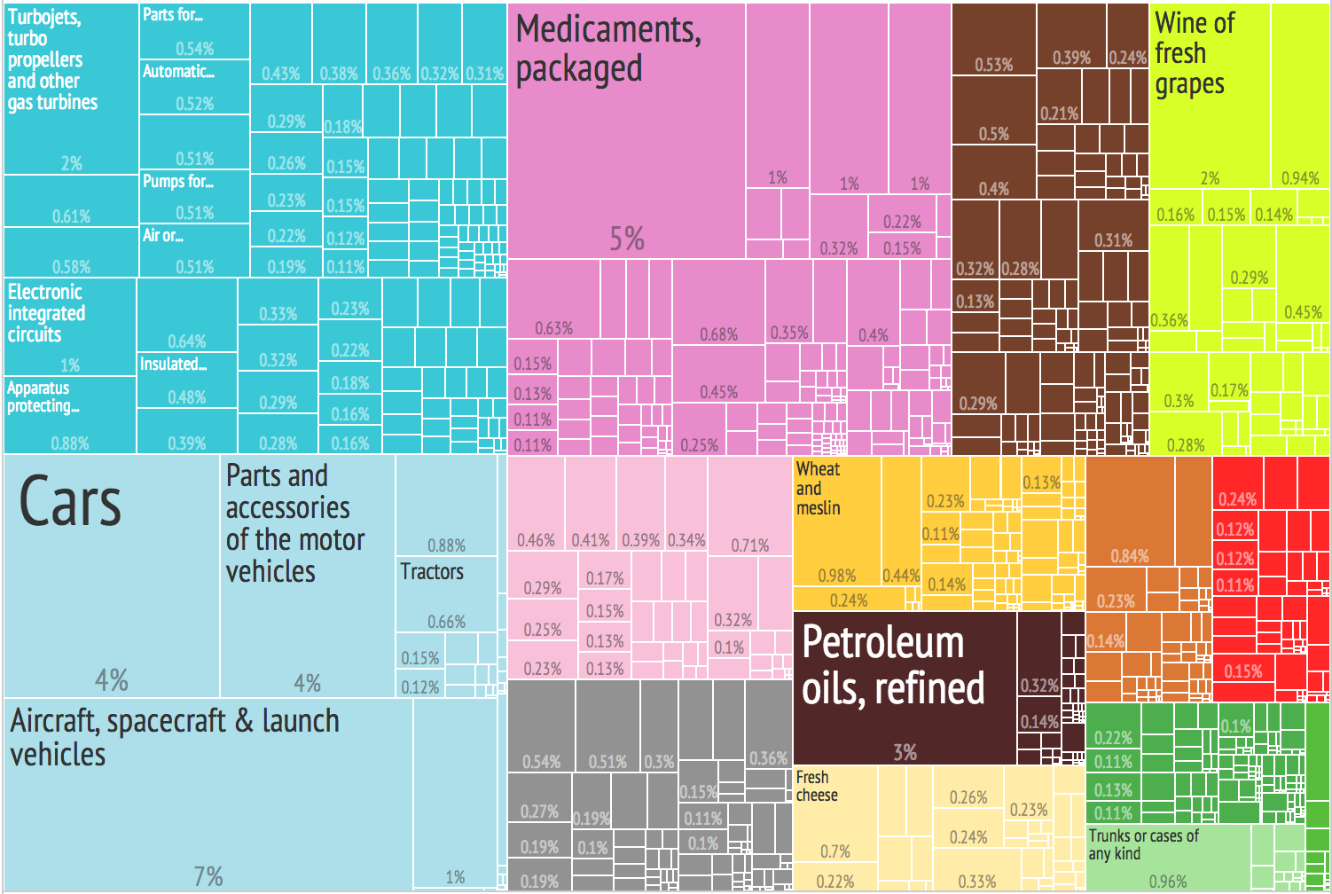 2012 France Products Export Treemap